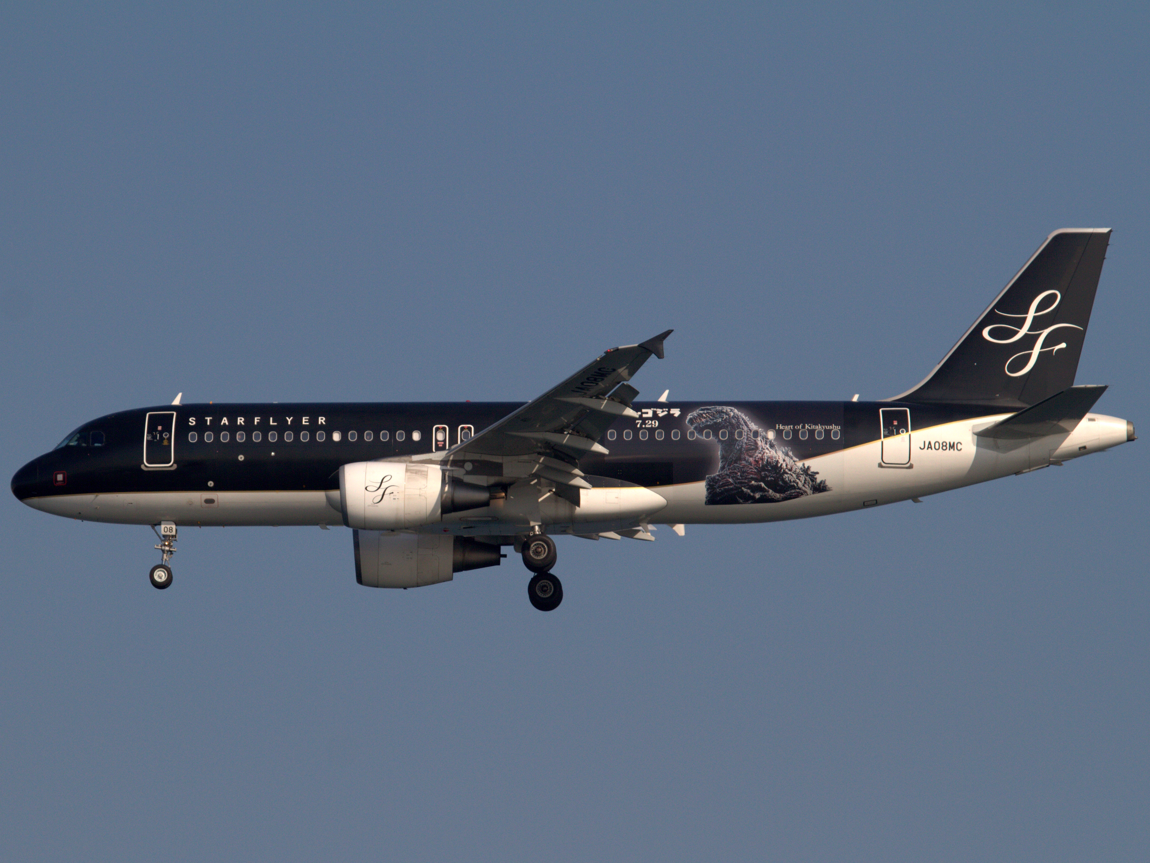 JA08 MC Star Flyer Shin Godzilla Jet Jet